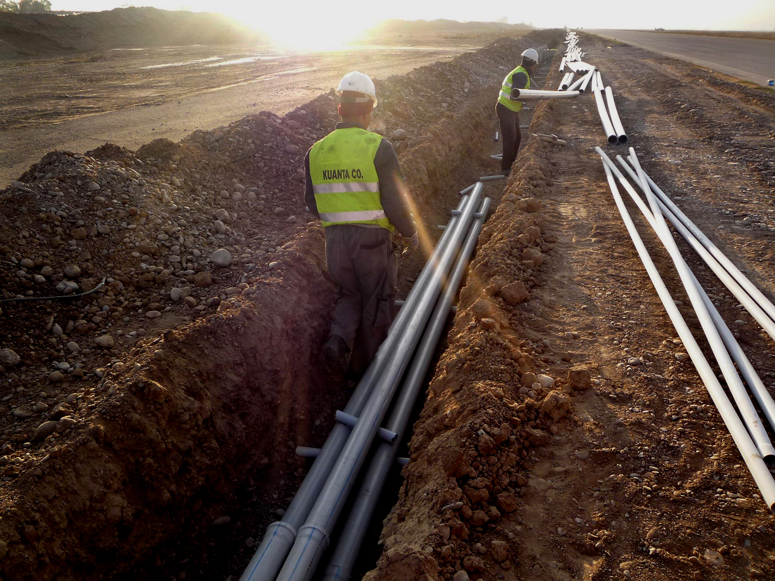 Contractors install conduit lines at Kirkuk Regional Air Base, Iraq, as part of a foreign military sales effort being managed by the Electronic Systems Center's 853d Electronic Systems Group at Hanscom Air Force Base, Massachusetts.